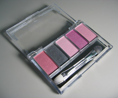 This is an eye shadow palette.